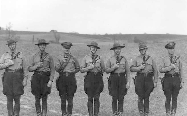 Collection Name: Historic “Blue Book” Photograph Collection Click here to see entire Collection Photographer/Studio: Unknown Description: Image showing seven highway patrol officers, standing in a field with their guns in their right hands, all pointed across their chests. Coverage: United States – Missouri Date: ca. 1910 Rights: Copyright is in the public domain. Credit: Courtesy of Missouri State Archives Image Number: RG005_78_10_0848 Institution: Missouri State Archives